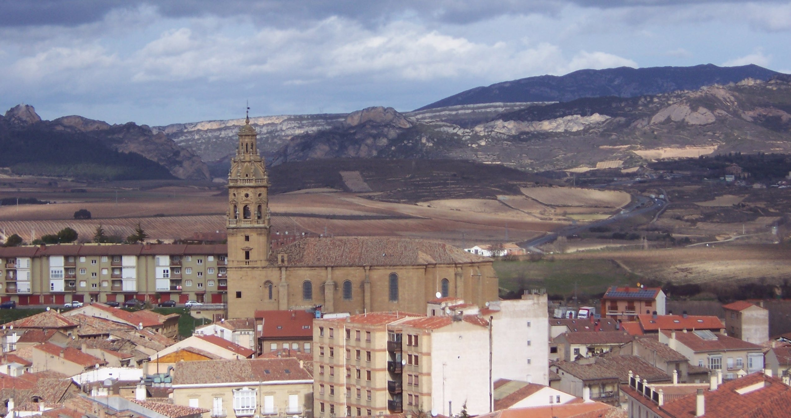 Church of Santo Tomás in Haro, La Rioja (Spain)